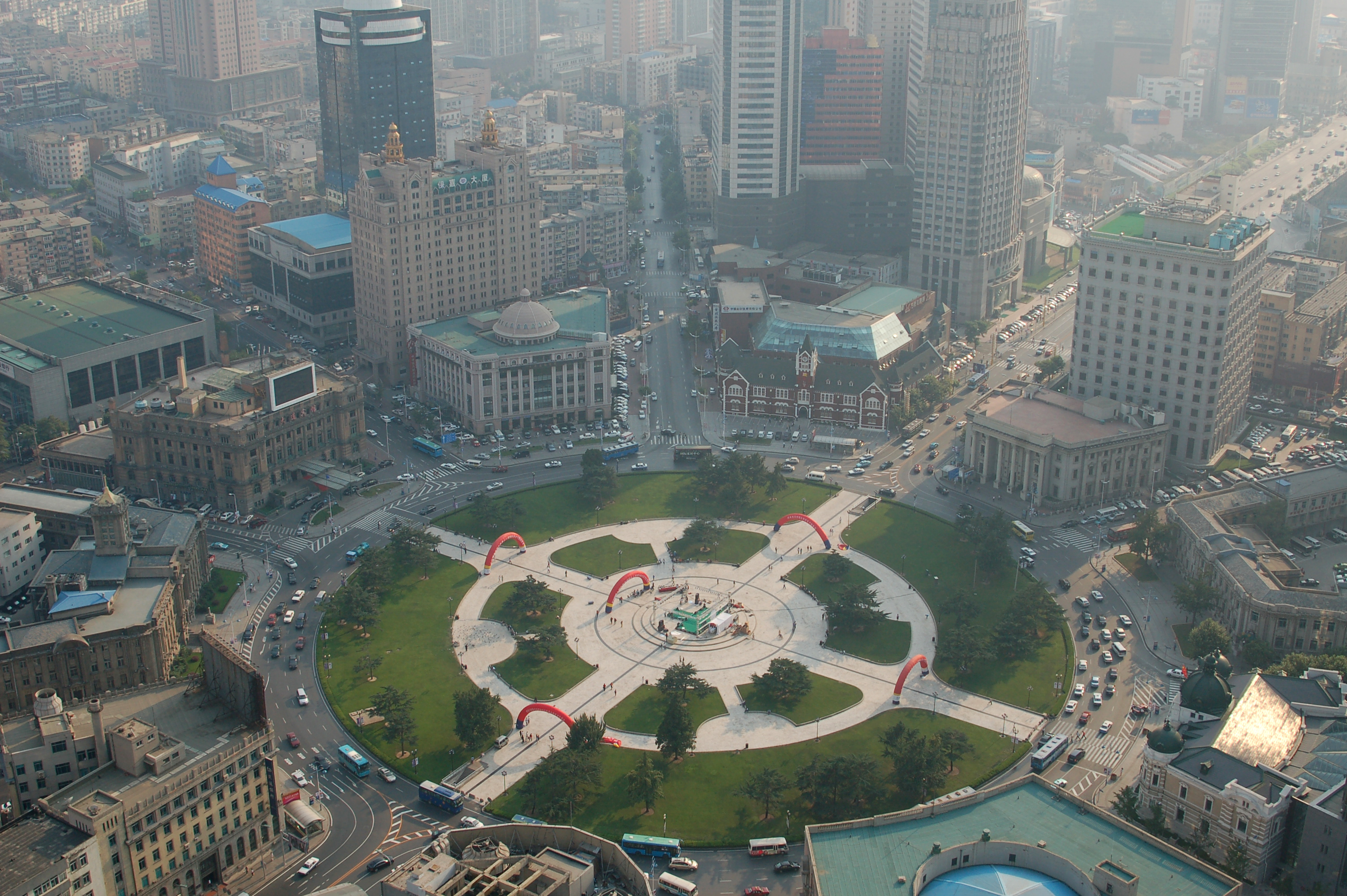 Zhongshan Square in the city of Dalian, Liaoning Province, Northeast China.Zhongshan Square